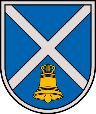 Coat of arms of Iecavas novads, Latvia